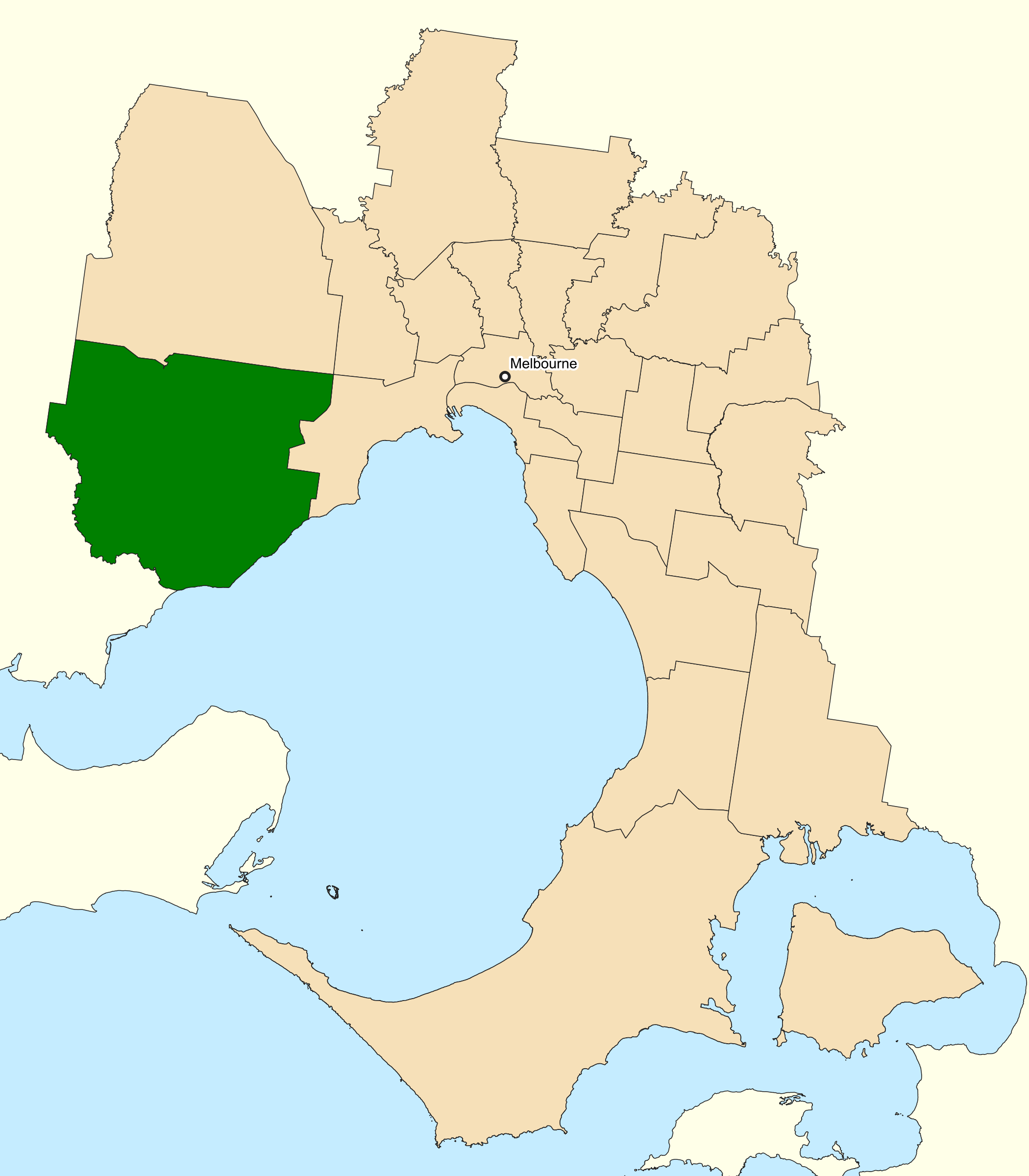 Location of the Australian federal electoral division of Lalor (dark green) in Greater Melbourne, Victoria as of the 2019 Australian federal election. Incorporates or developed using Administrative Boundaries ©PSMA Australia Limited licensed by the Commonwealth of Australia under Creative Commons Attribution 4.0 International licence (CC BY 4.0).